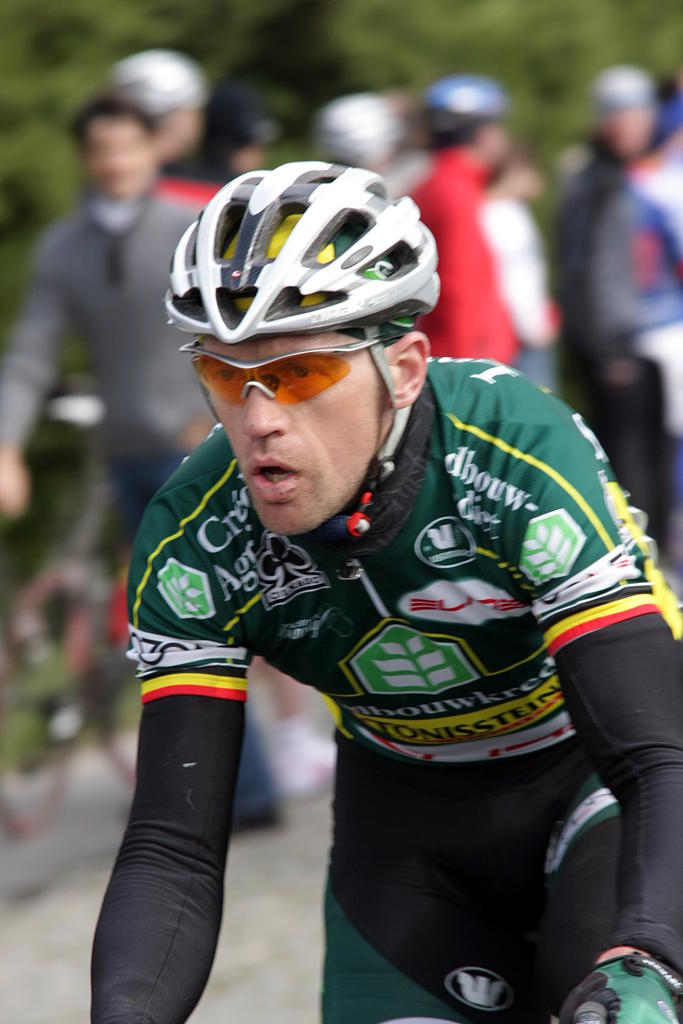 Tom Steels on the top of the Eikenberg. E3 Prijs